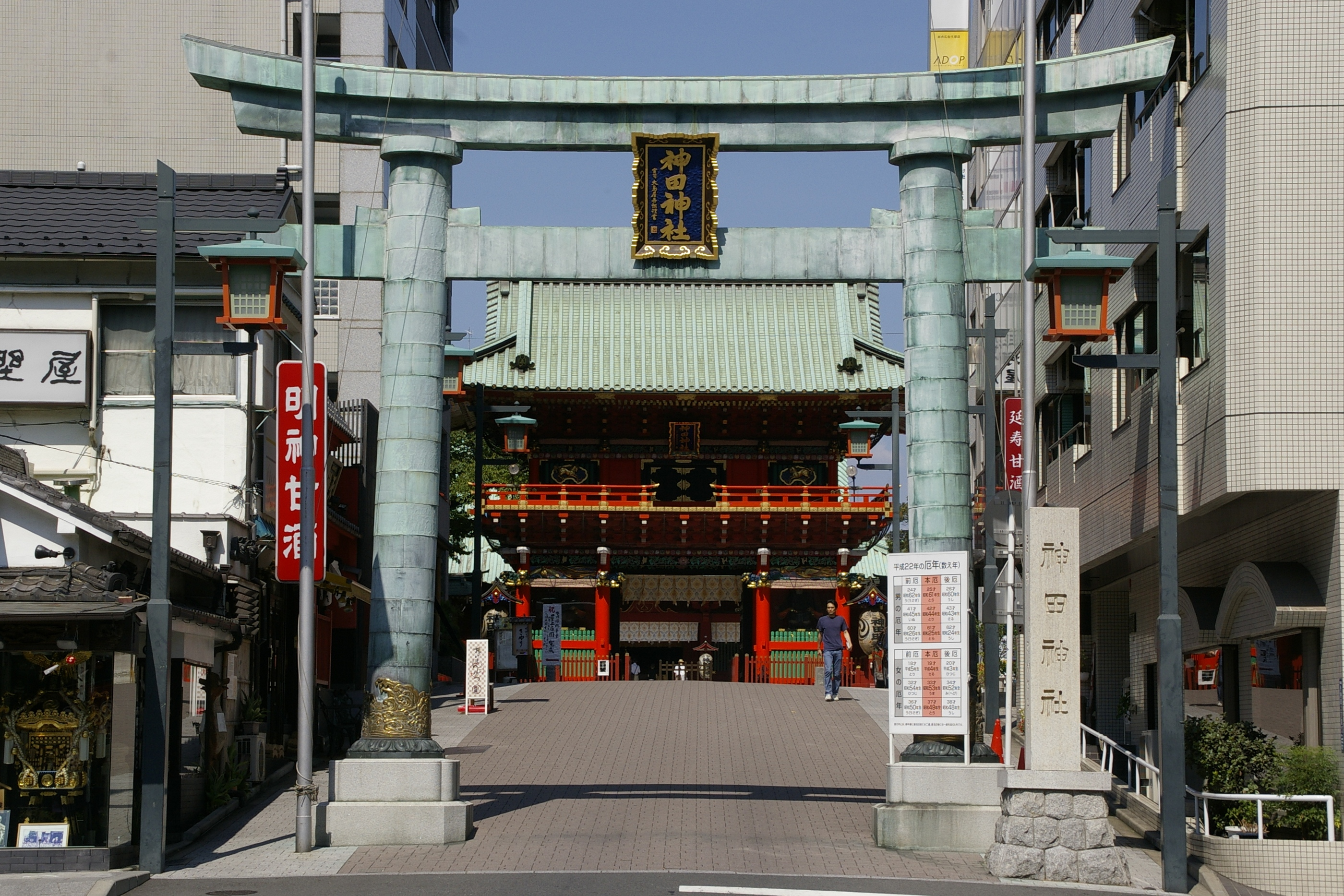 Kanda Myojin Torii and Zuishinmon